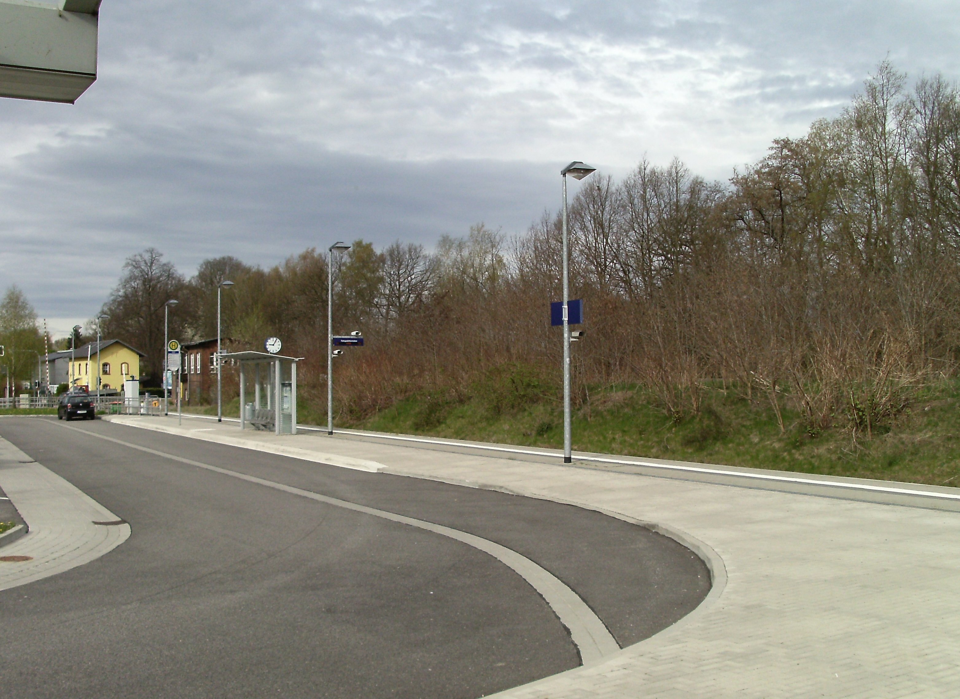 New train station and bus stop in Narsdorf (Leipzig district, Saxony)